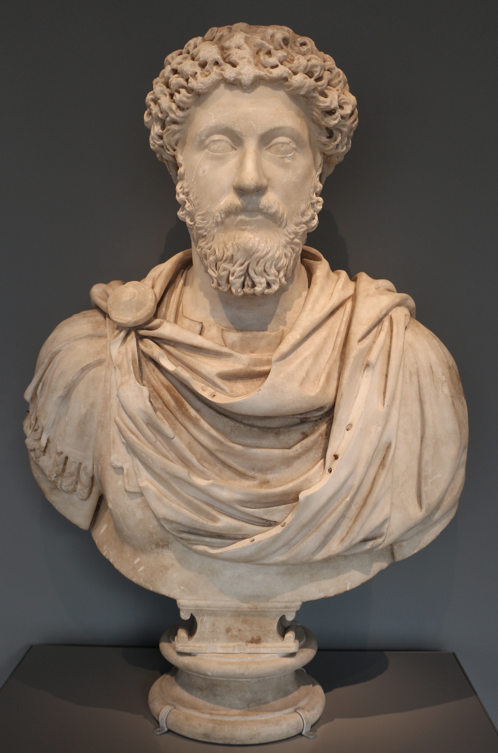 Ancient Roman sculptures in the Art Institute of Chicago